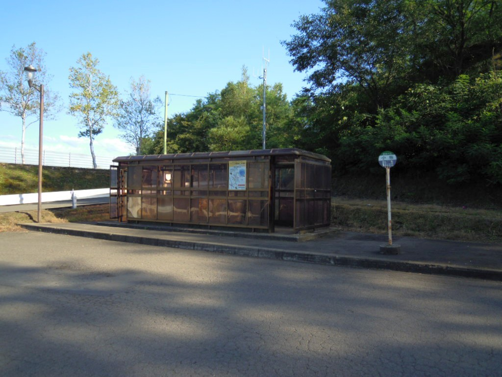 Kosaka and Kosaka-koko-mae Bus Stops in Kosaka Town, Akita Prefecture, Japan